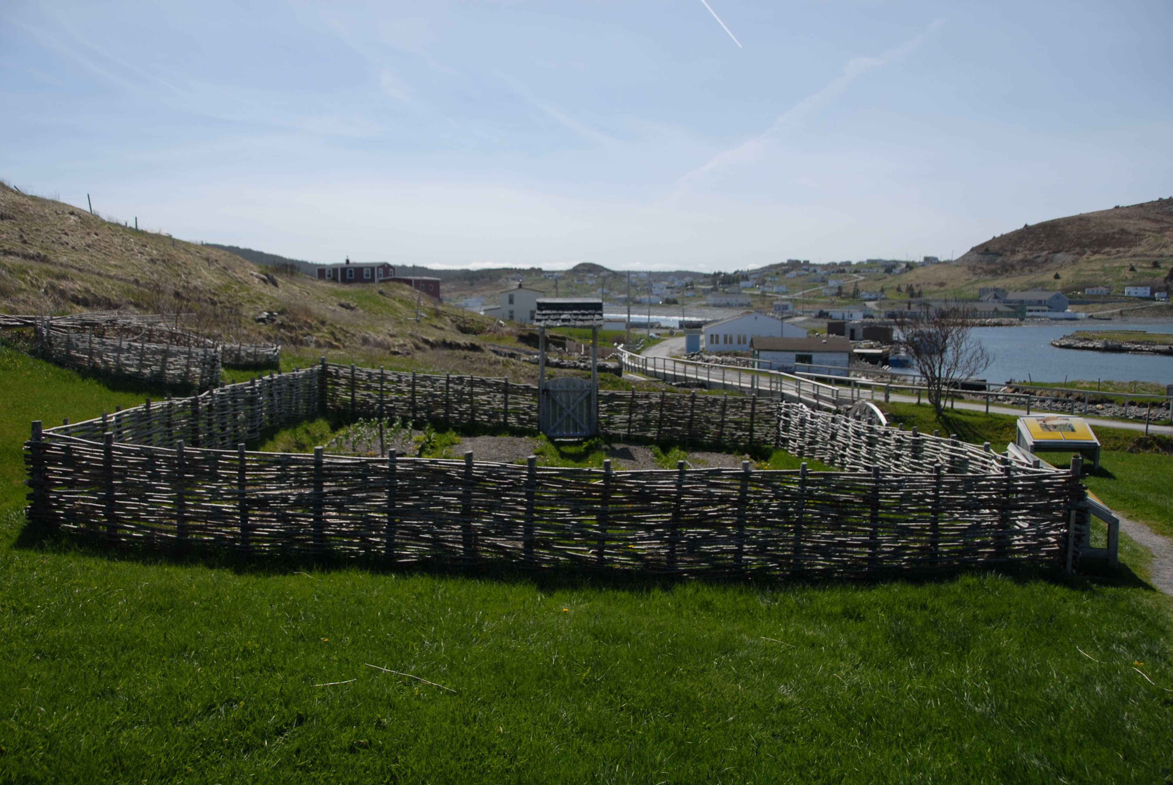 The Colony of Avalon